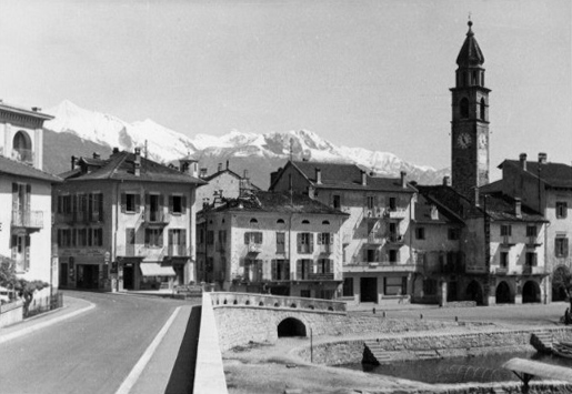 Ascona, Canton of Ticino, Switzerland, 1932